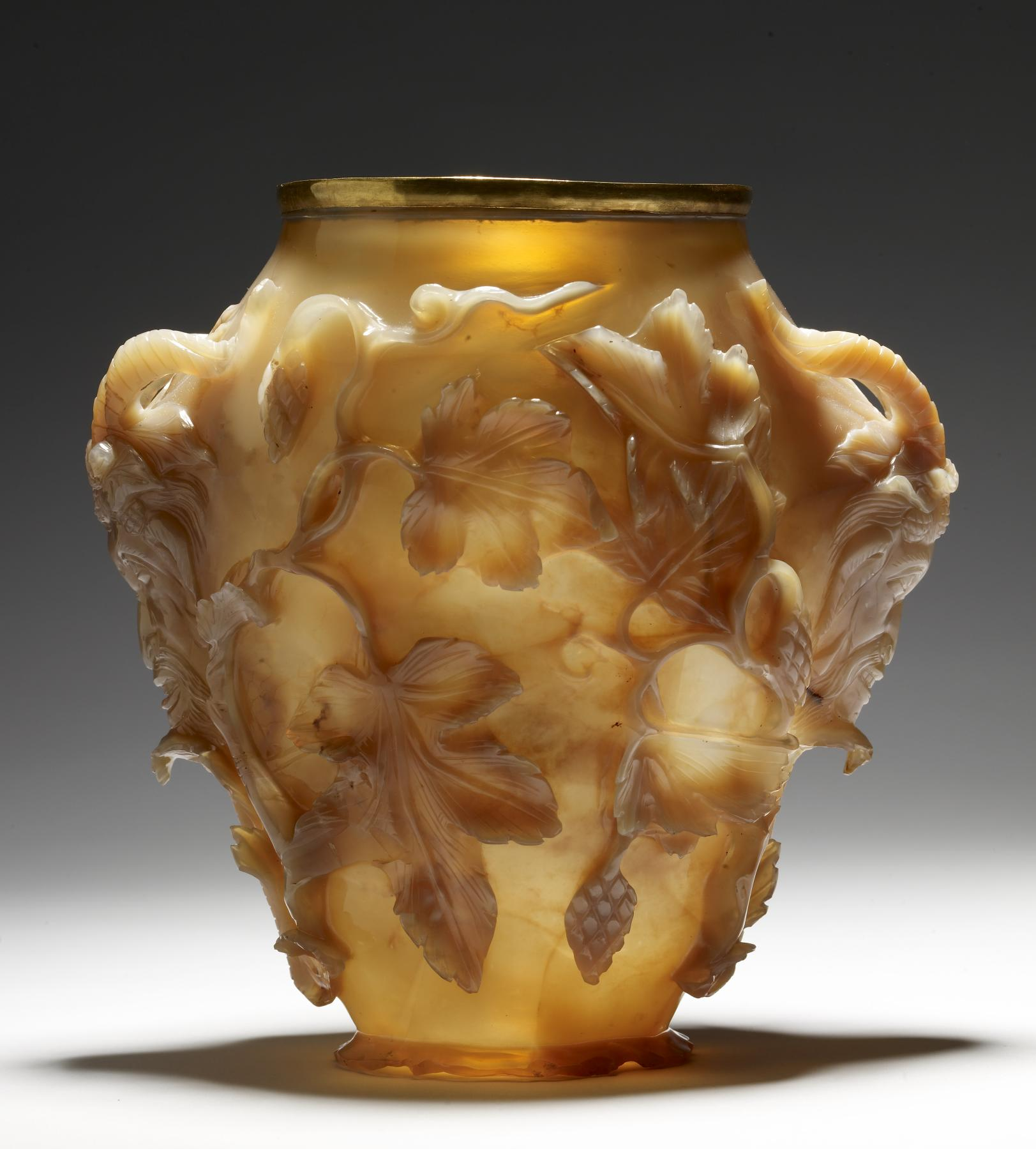 Carved in high relief from a single piece of agate, this extraordinary vase was most likely created in an imperial workshop for a Byzantine emperor. It made its way to France, probably carried off as treasure after the sack of Constantinople in 1204 during the Fourth Crusade, where it passed through the hands of some of the most renowned collectors of western Europe, including the Dukes of Anjou and King Charles V of France. In 1619, the vase was purchased by the great Flemish painter Peter Paul Rubens (1577-1640). A drawing that he made of it is now in Saint Petersburg, State Hermitage Museum, inv. 5430. The subsequent fate of the vase before the 19th century is obscure. The gold mount around its rim is struck with a French gold-standard mark used in 1809-1819 and with the guarantee stamp of the French departement of Ain. A similar late Roman agate vessel, the "Waddesdon Vase" or "Cellini Vase," in now in the British Museum, London.